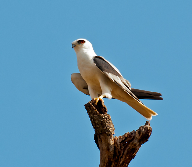 A White-tailed Kite in Piraju, São Paulo, Brazil.